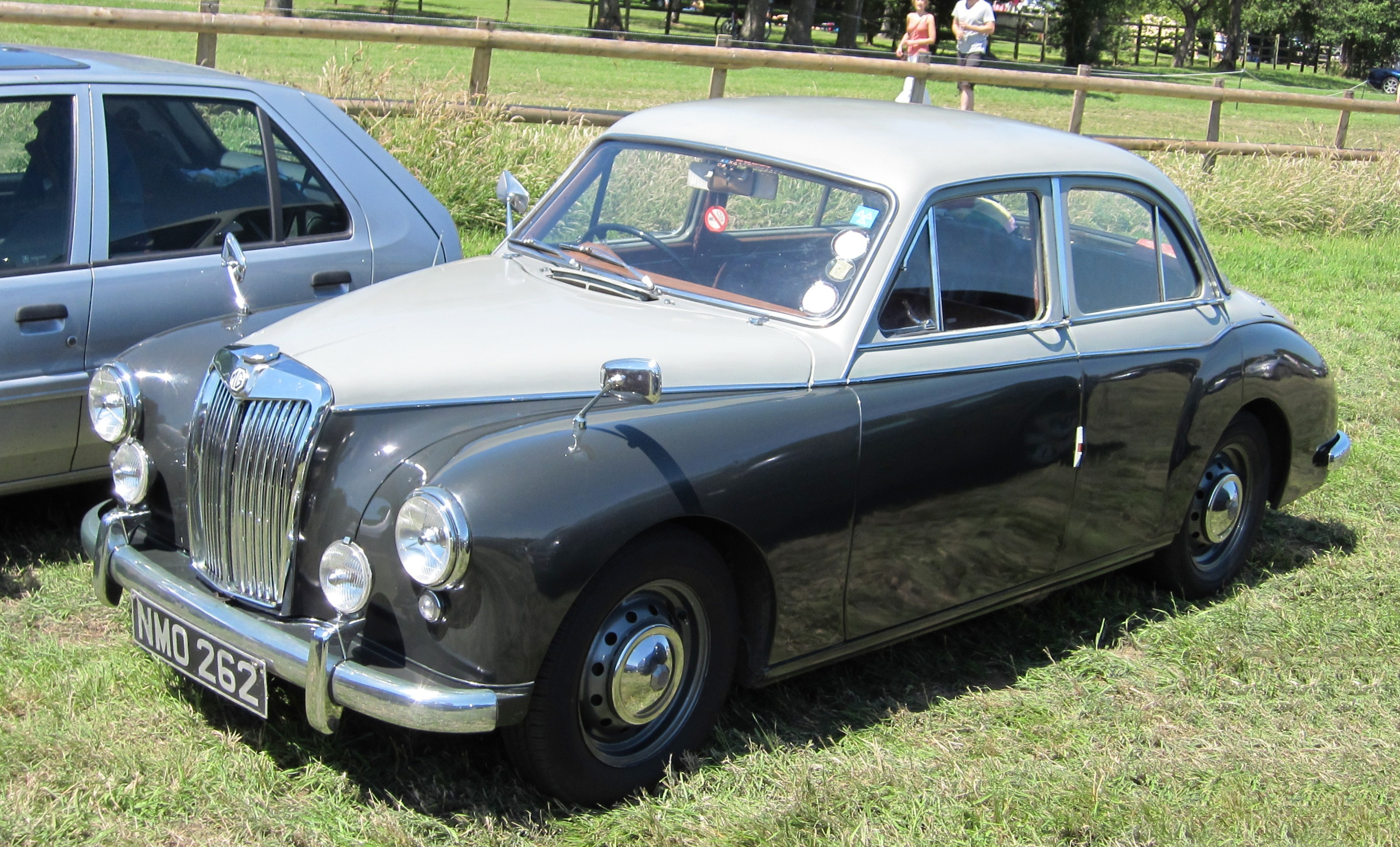 MG Magnette ZB in Essex